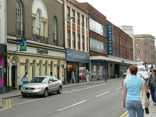 High Street, Bedford Between St Paul's Square (behind me) and Silver Street (beyond Debenhams). I remember the Debenhams building was occupied by a department store called E.P.Rose in the 1950's and 60's.